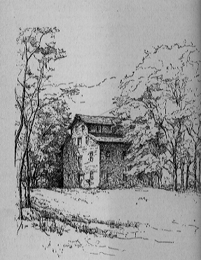 Cedar Creek Mill, Cedarville, Illinois, United States, at the John H. Addams Homestead, mill is no longer extant.